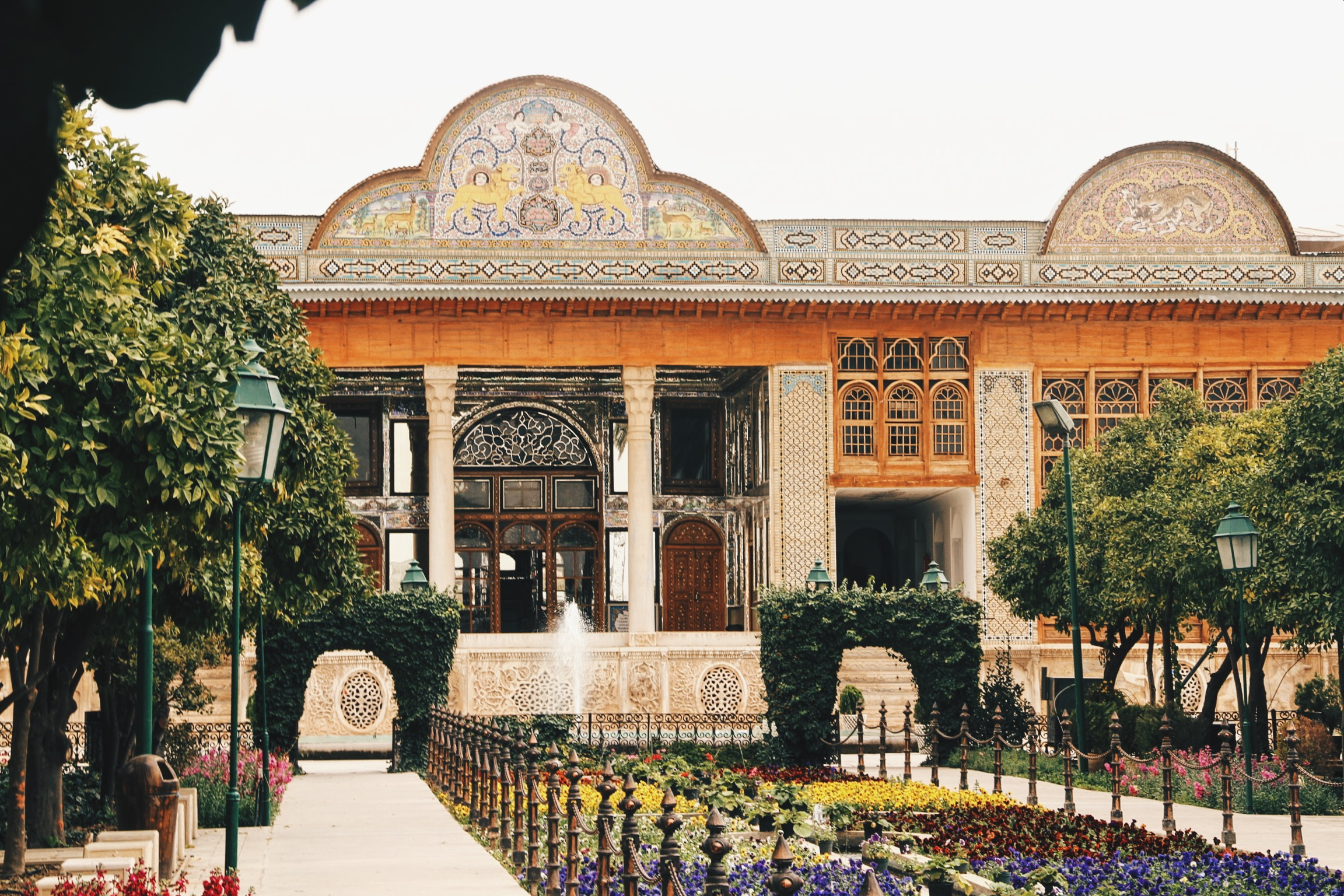 narenjestan qavam pic by erfan hosseinpour